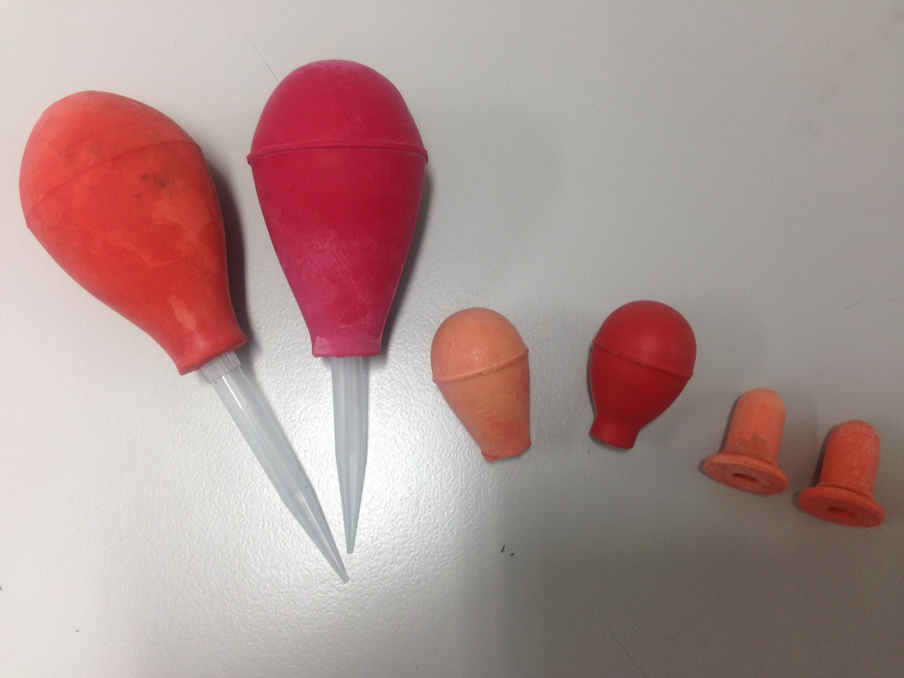 4 types of rubber bulbs